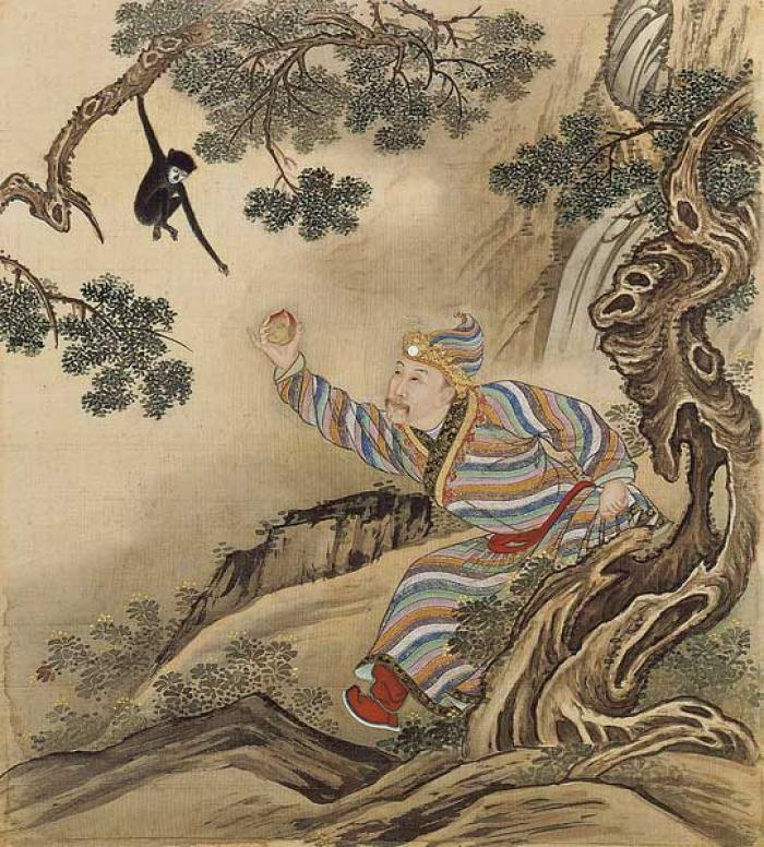 From Album of the Yongzheng Emperor in Costumes, by anonymous court artists, Yongzheng period (1723—35). One of 14 album leaves, colour on silk. The Palace Museum, Beijing.